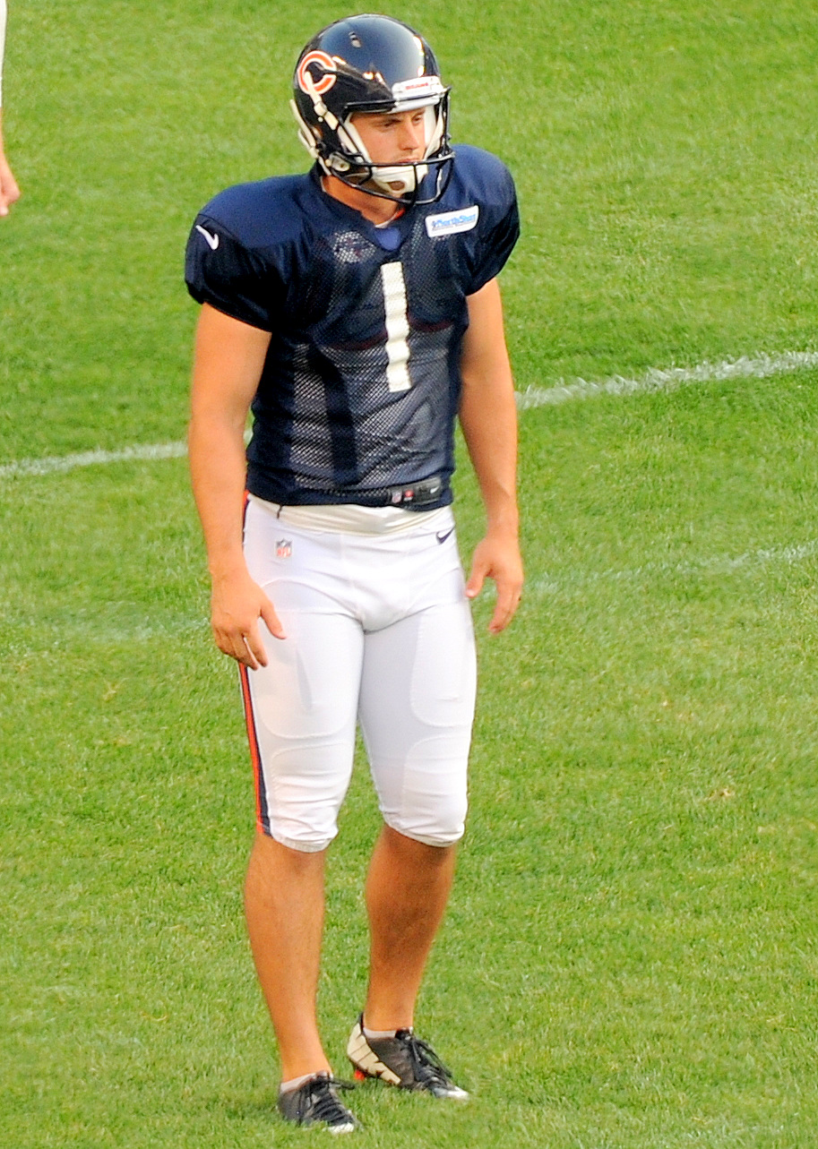 Punter Tress Way at Chicago Bears training camp in 2014.